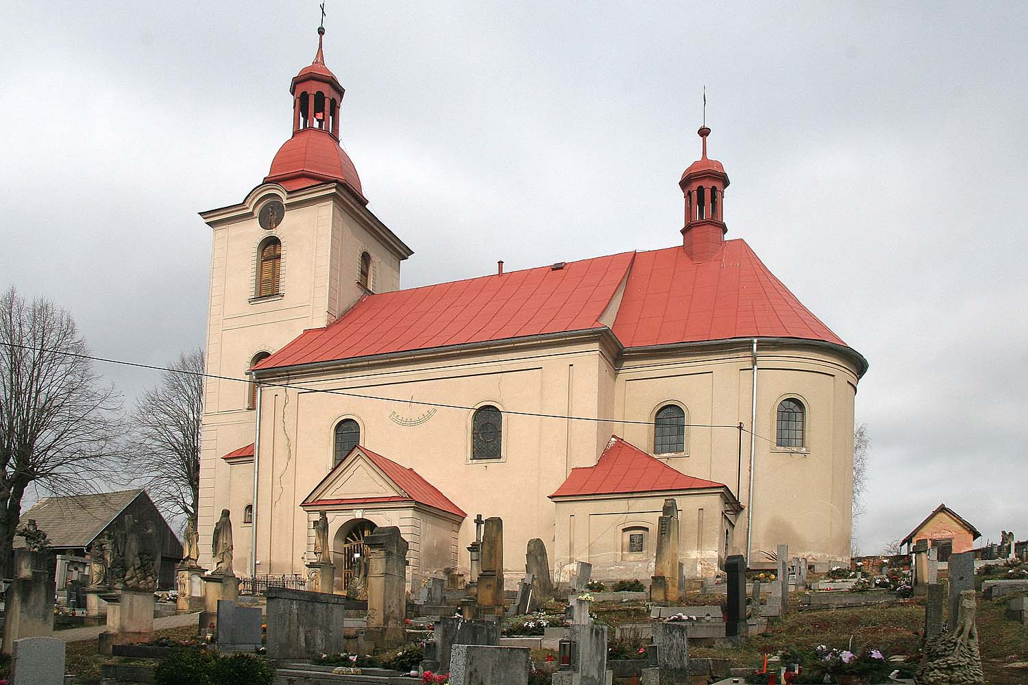 Church of the Nativity of Virgin Mary in Úbislavice, Jičín District, Czech Republic autor: Prazak date:23.2.2007